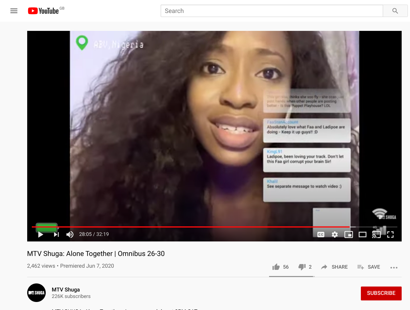 Scene from MTV Shuga Episode 25-30 in 2020